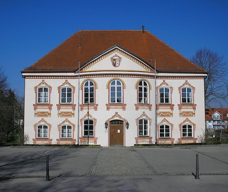 Tuerkenfeld castle near Fuerstenfeldbruck, Upper Bavaria, Germany. Total view. Own photo, Febr. 2007